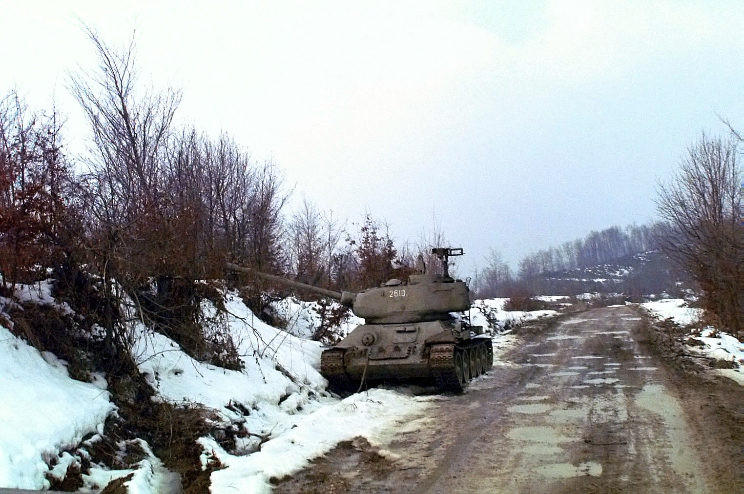 A Serbian T-34 tank is parked on the edge of the road beside a snow-covered bank during Operation Joint Endeavor.